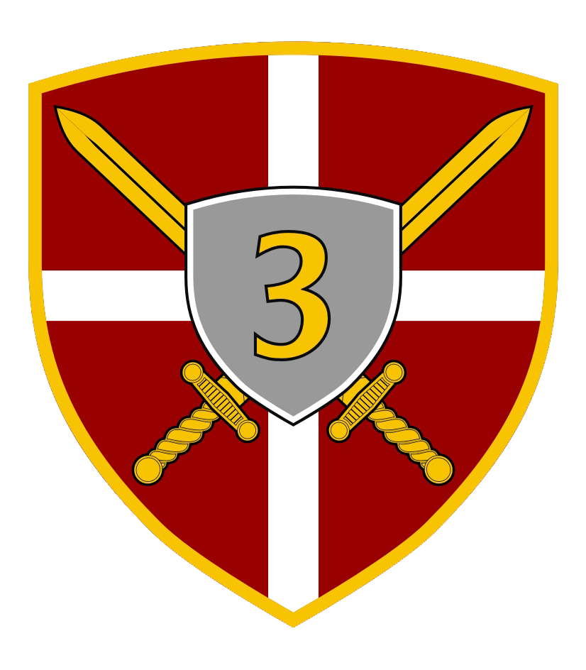 3rd Brigade SLF patch